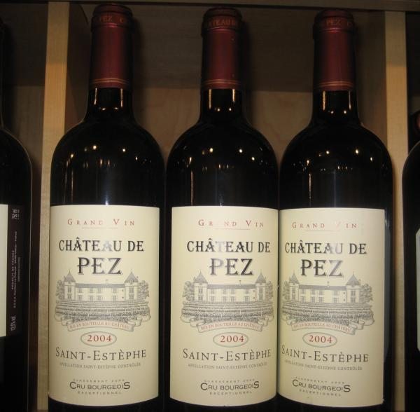 Bordeaux wine from the Saint-Estephe region of the Left bank. The label also clearly designates this as cru bourgeois classified wine.